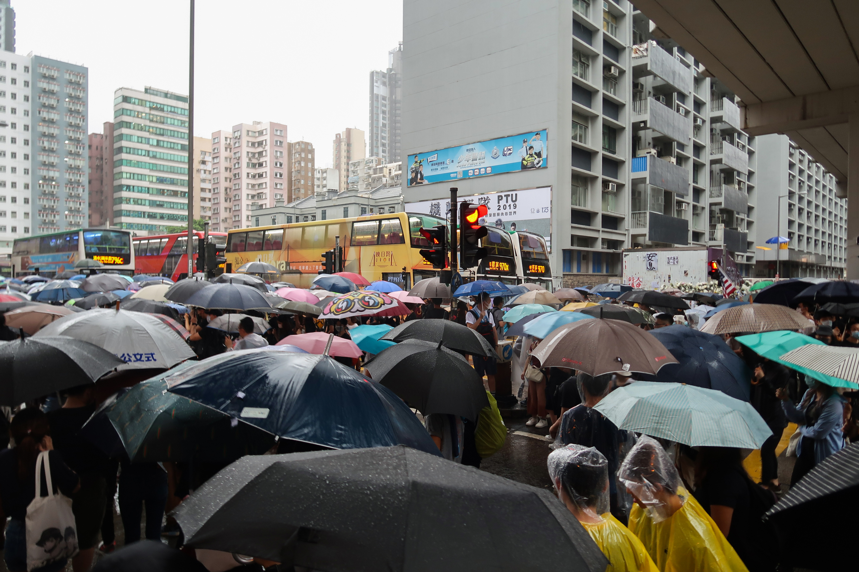 Nathan Road near Mong Kok Police Station